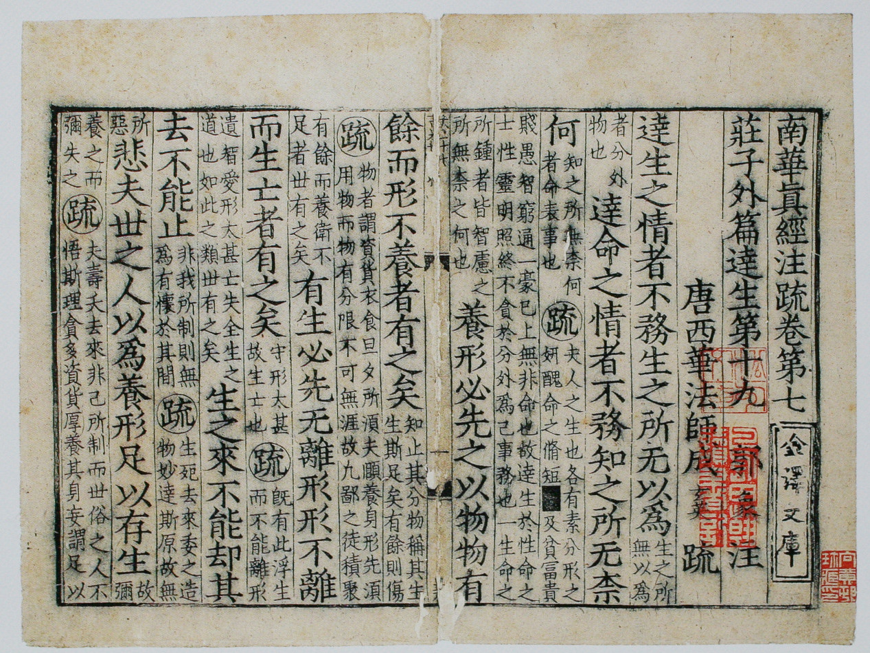 Opening pages of “Da Sheng ” Volume(19th volume) of Zhuangzi printed in Sung dynasty Fomerly in Kazazawa Library, Japan in 14th century, Now in Seikado Librrary, Tokyo, Japan.